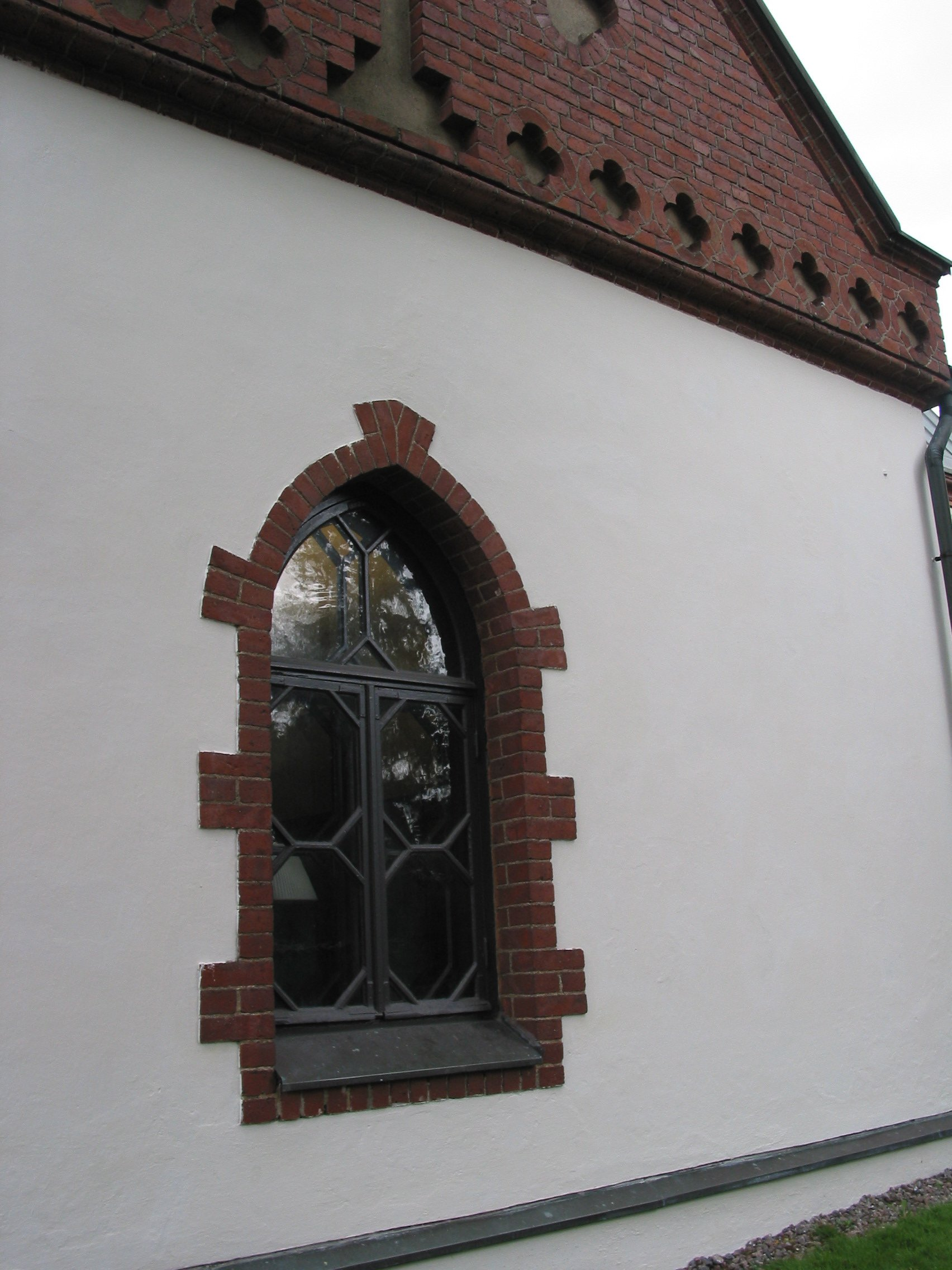 St. Lawrence Church in Vantaa - Window in the sacristy